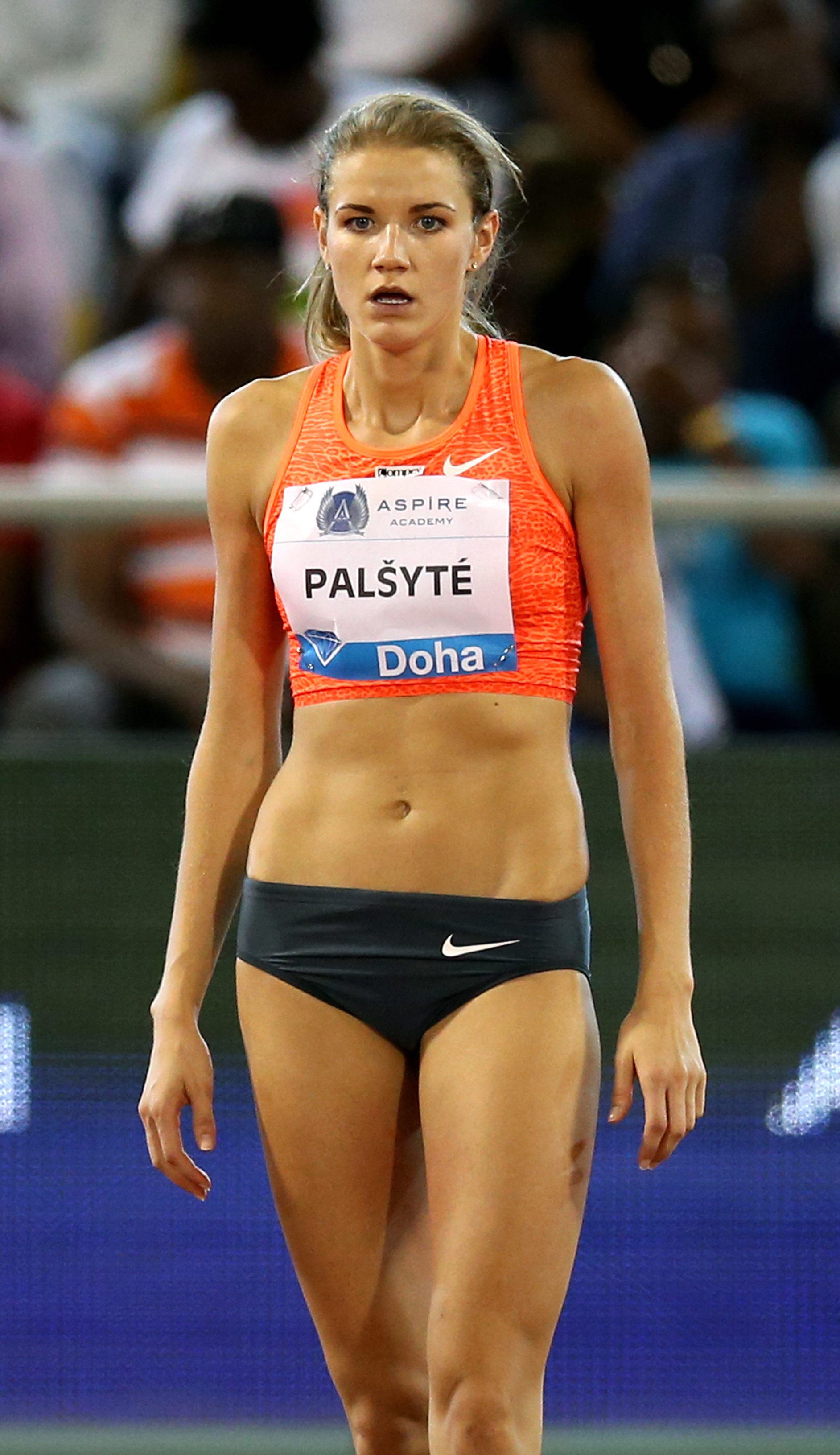 Lithuania's Airine Palsyte en route to gold in women's high jump at the Doha Diamond League meet.